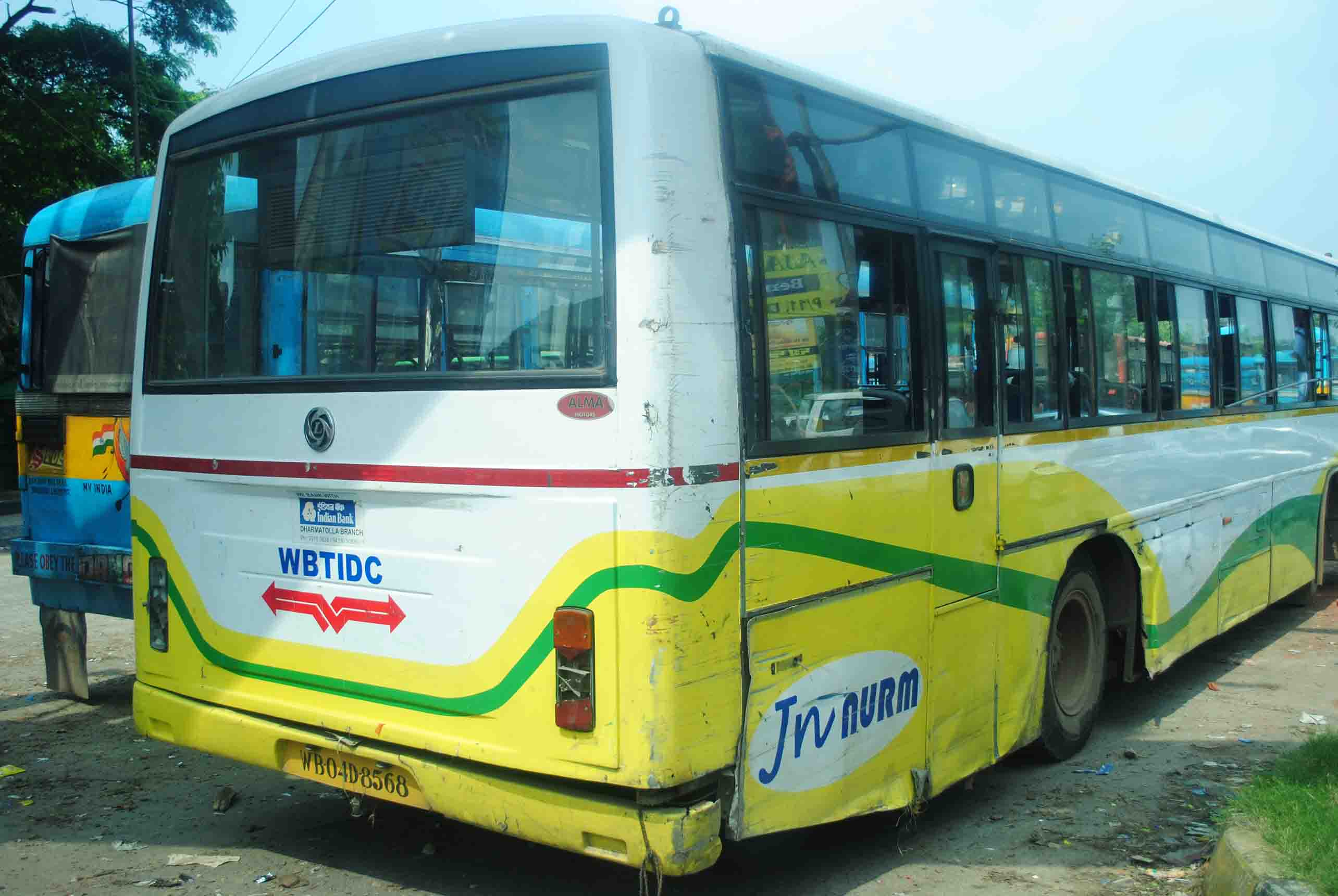 A bus donated by the Jawaharlal Nehru National Urban Renewal Mission (JNNURM) to West Bengal Transport Infrastructure Development Corporation Limited (WBTIDCL).